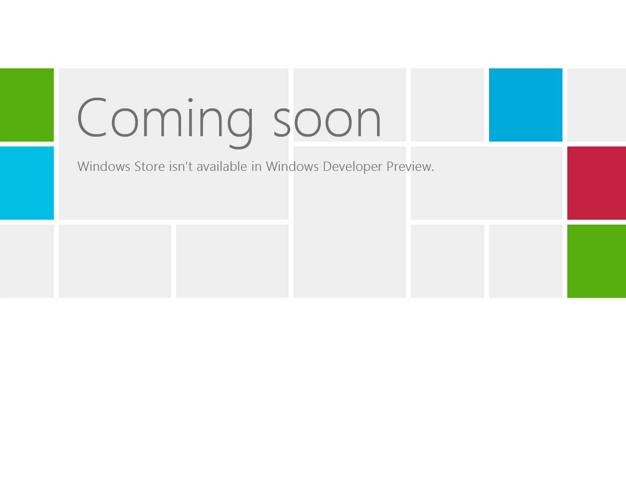 Windows Store in Windows Developer Preview